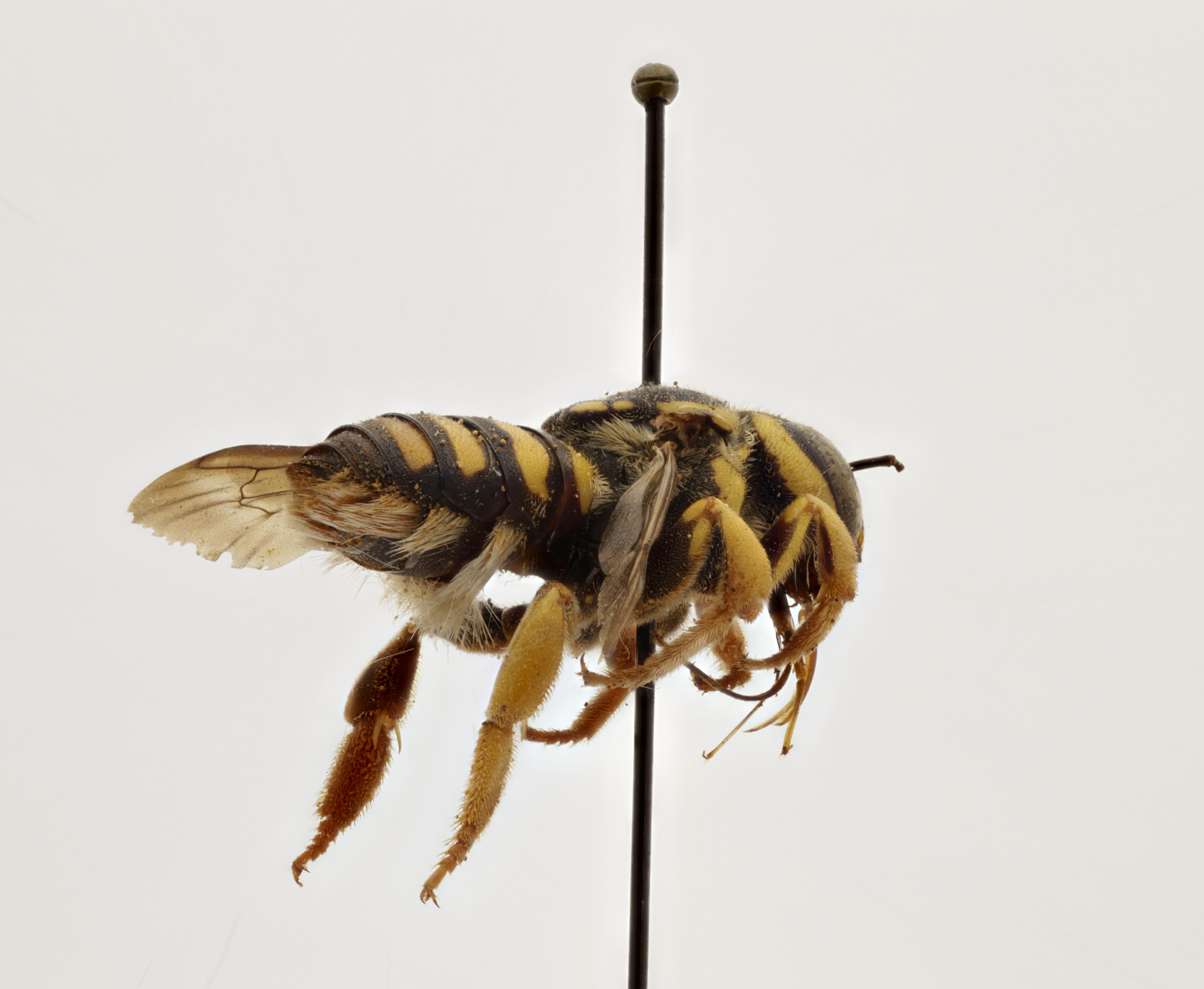 Anthidium forcipatum 100 photographs.